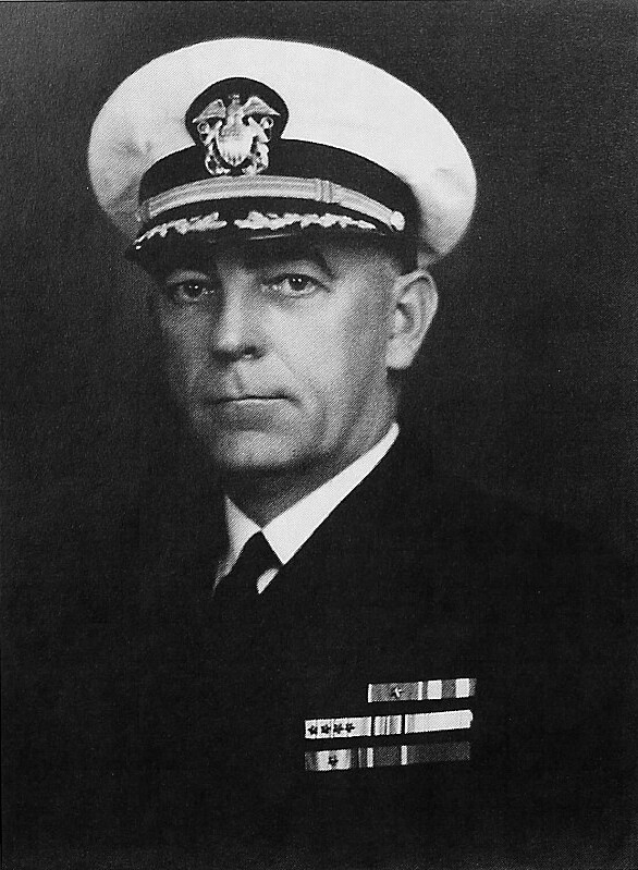 Admiral Robert Briscoe, date unknown. WWII Era